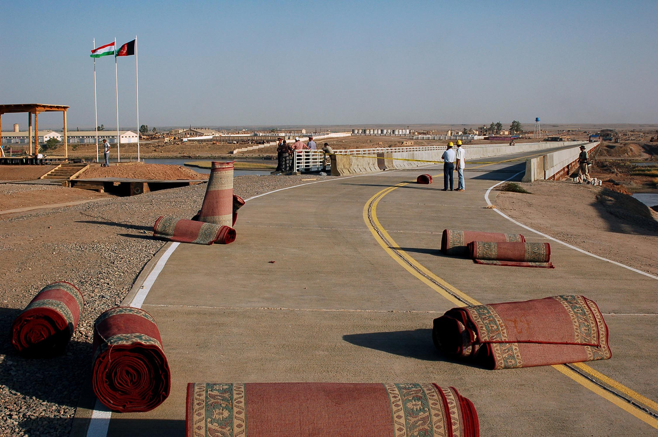 The bridge connecting Afghanistan and Tajikistan is prepared for its dedication ceremony. Afghanistan President Hamid Karzai, Tajikistan President Emomali Rahmonov and U.S. Secretary of Commerce Honorable Carlos M. Gutierrez, attended the ceremony Aug. 26. (U.S. Army photo/Master Sgt. Mark W. Rodgers)